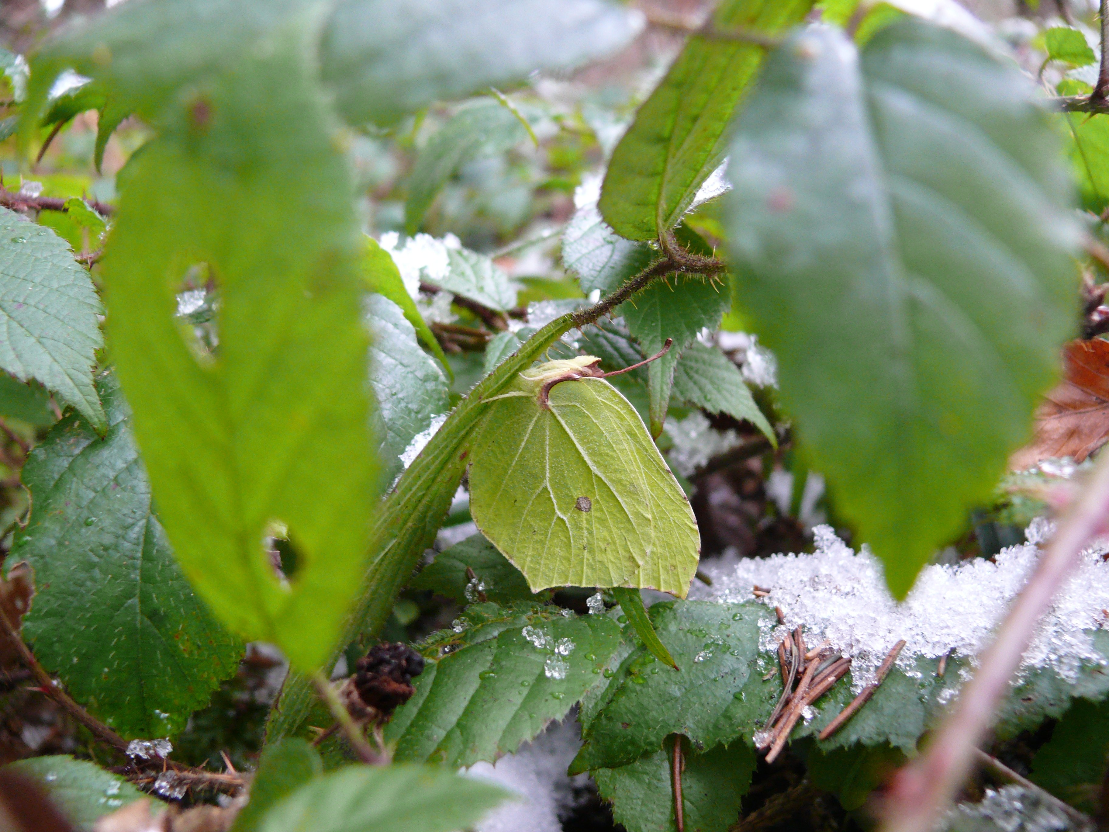 Hibernating Common Brimstone (male), Upper Bavaria, Germany Aufgenommen während einer Exkursion des Arbeitskreises Schmetterlinge der Kreisgruppe München beim Landesbund für Vogelschutz (LBV).